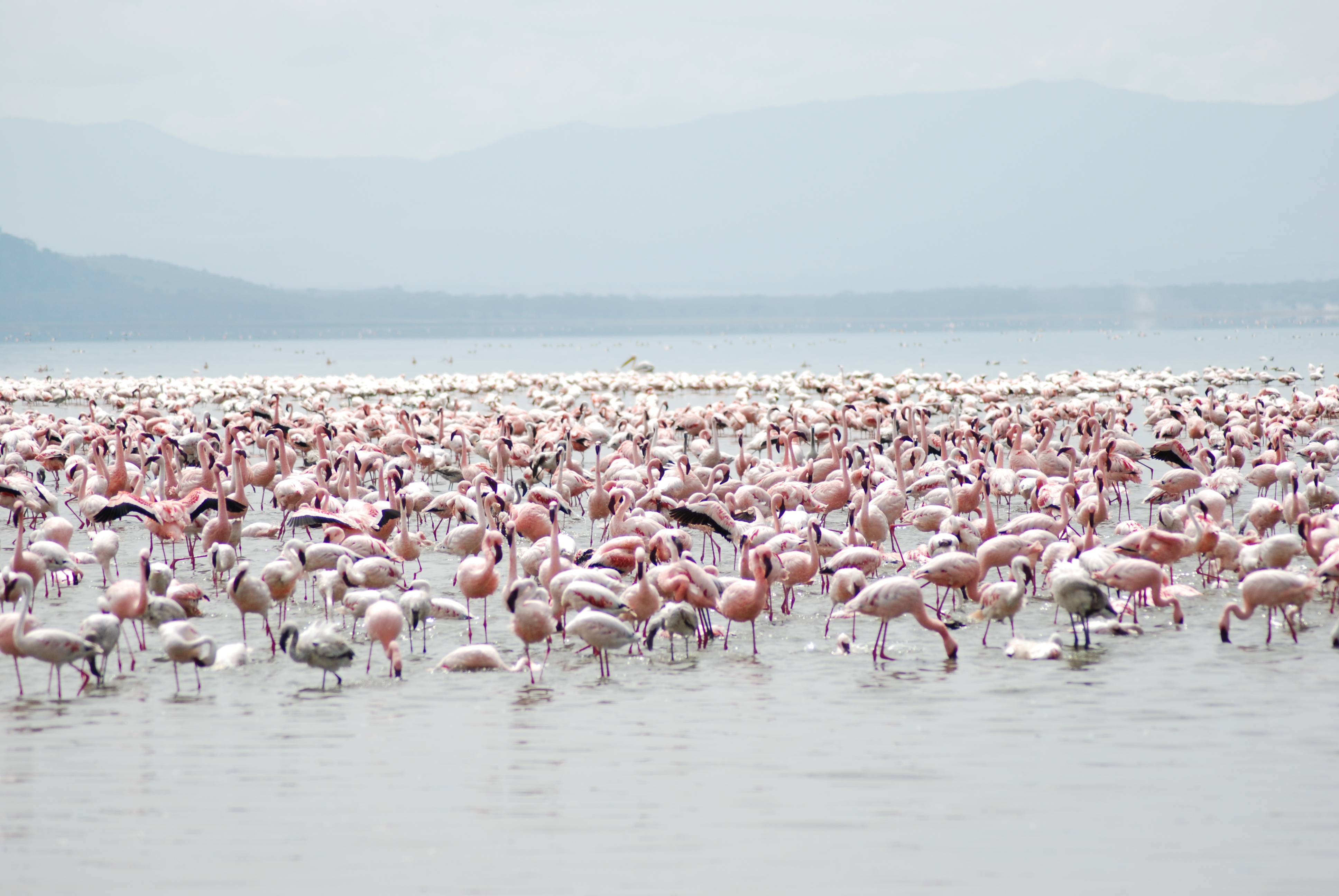 There is a sea of Millions of Flamingos at lake Nakuru. Its one of the best scenes the tourist can have as soon as they come in the Lake Nakuru National Park.